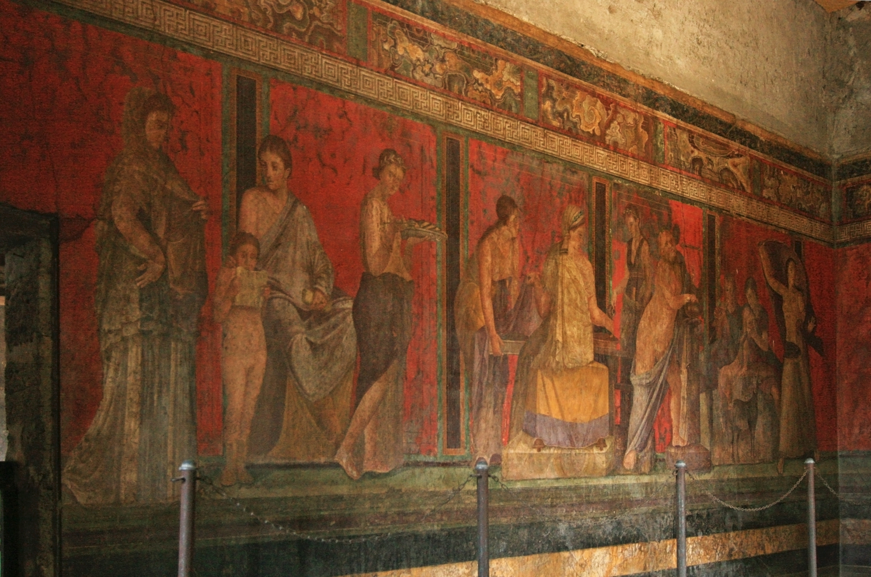 Fresco in Villa of the Mysteries, Pompeii.